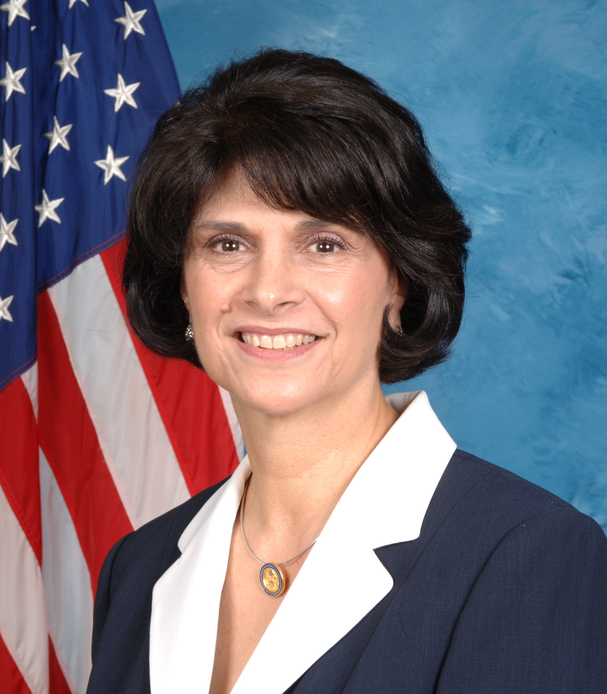 Lucille Roybal-Allard, U.S. Congresswoman (D-California, 1993-present).